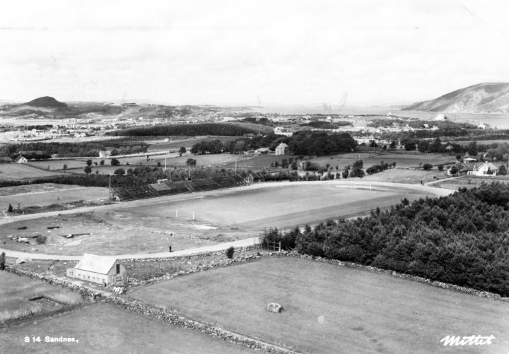 Aerial photo of Sandnes stadion anno 1946